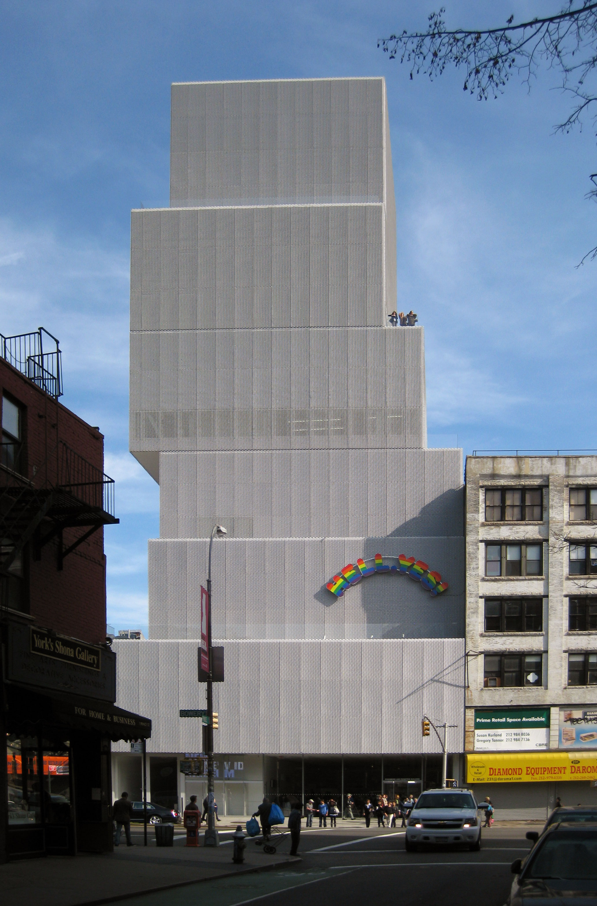 The western face of the New Museum in New York photographed from Prince Street